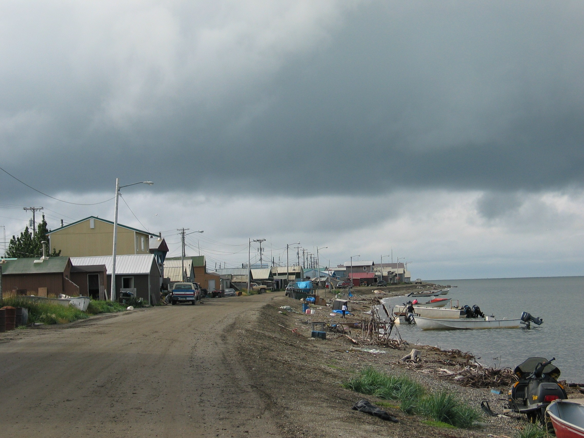 Kotzebue, Alaska, water front.